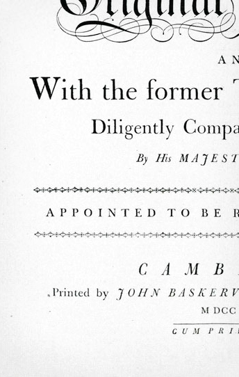 Crop of the title page of John Baskerville's Bible, typeset for the Cambridge University Press in 1763.